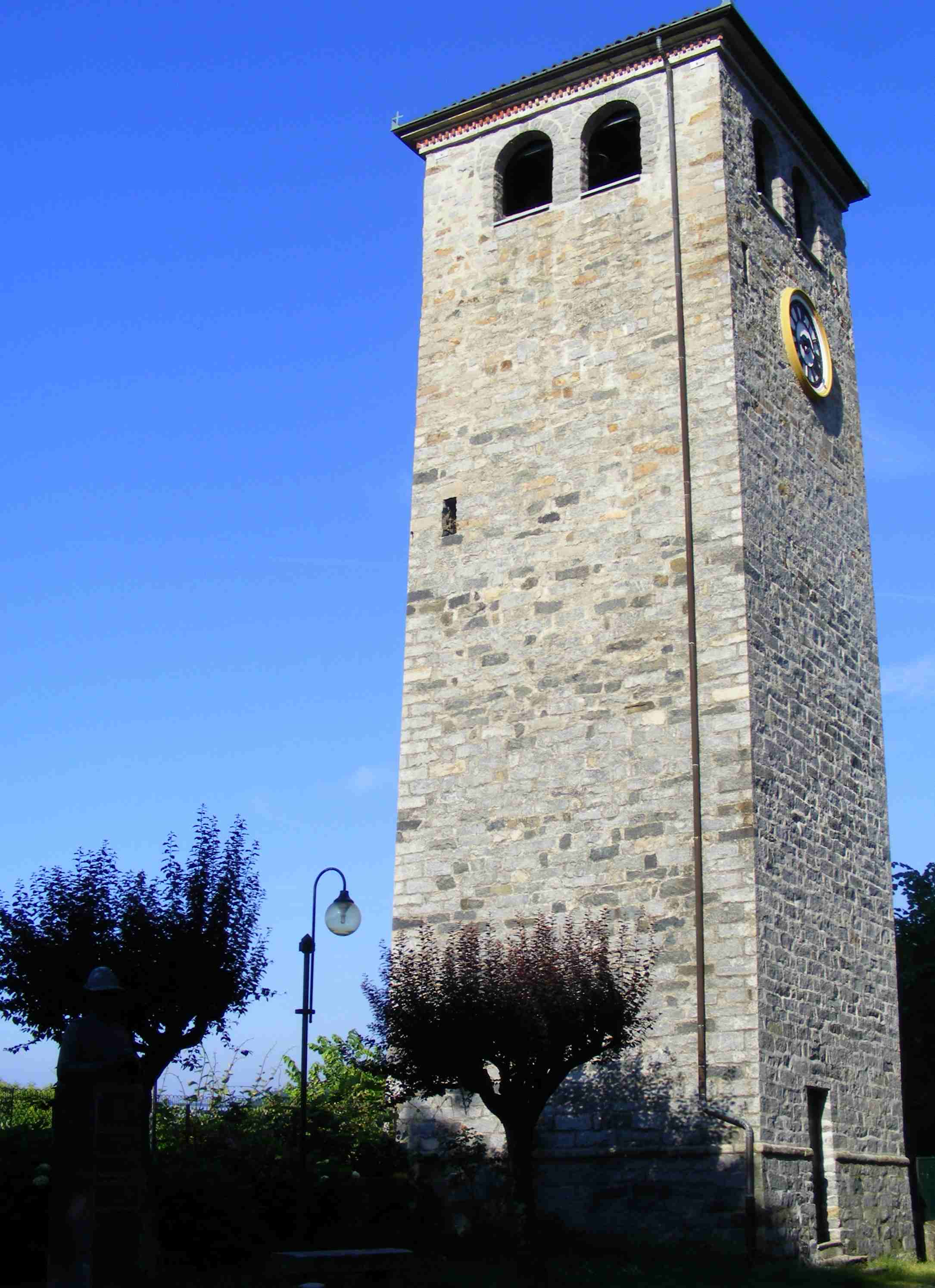 Camandona (BI, Italy)